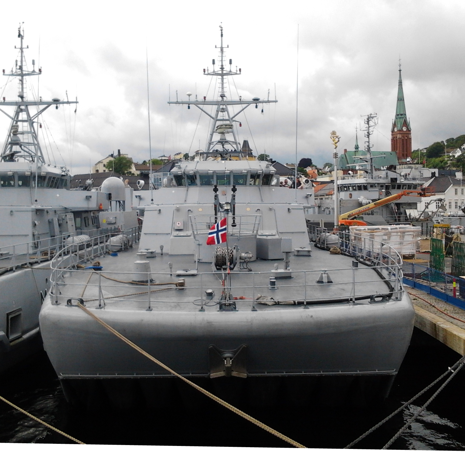 Norwegian minehunter KNM Hinnøy